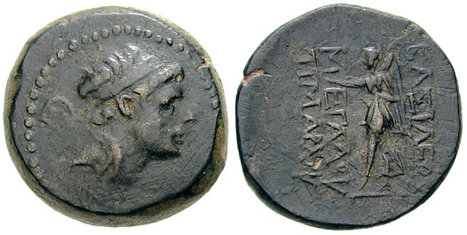 Coin of Timarchus, Babylon mint.